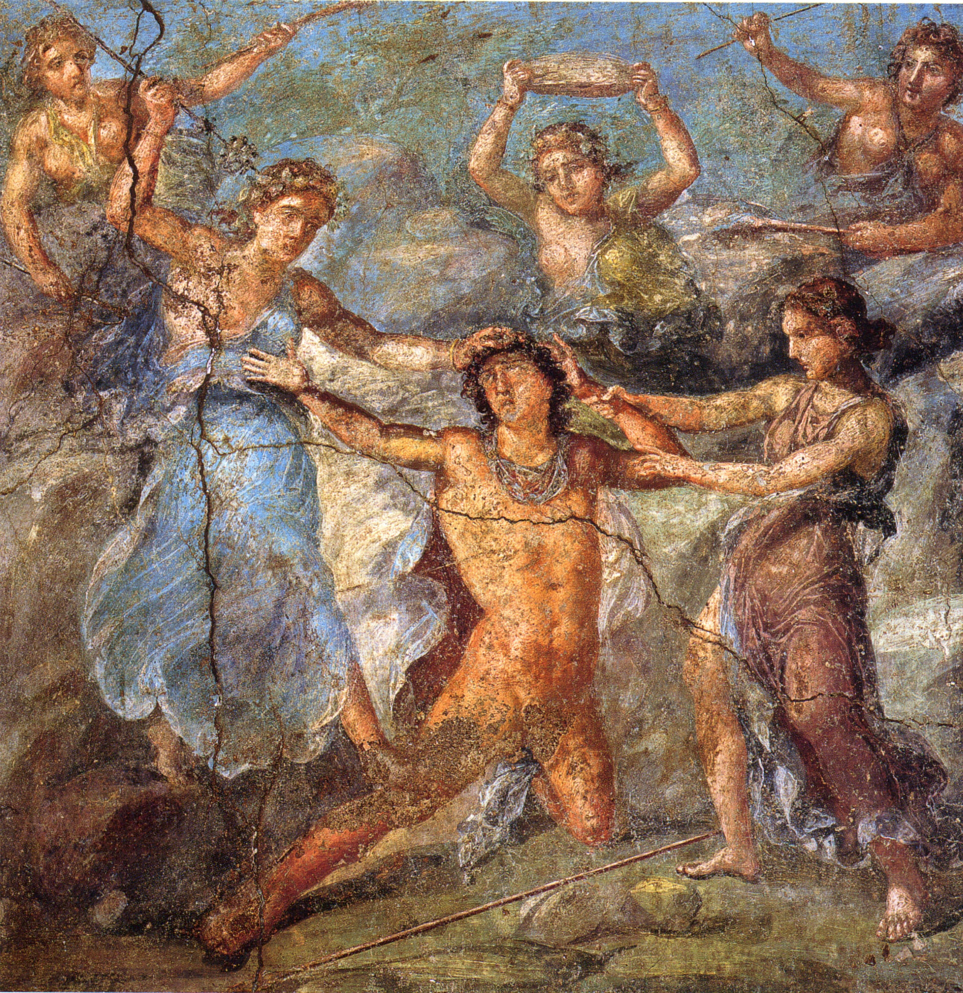 Pentheus being torn by maenads. Roman fresco from the northern wall of the triclinium in the Casa dei Vettii (VI 15,1) in Pompeii.